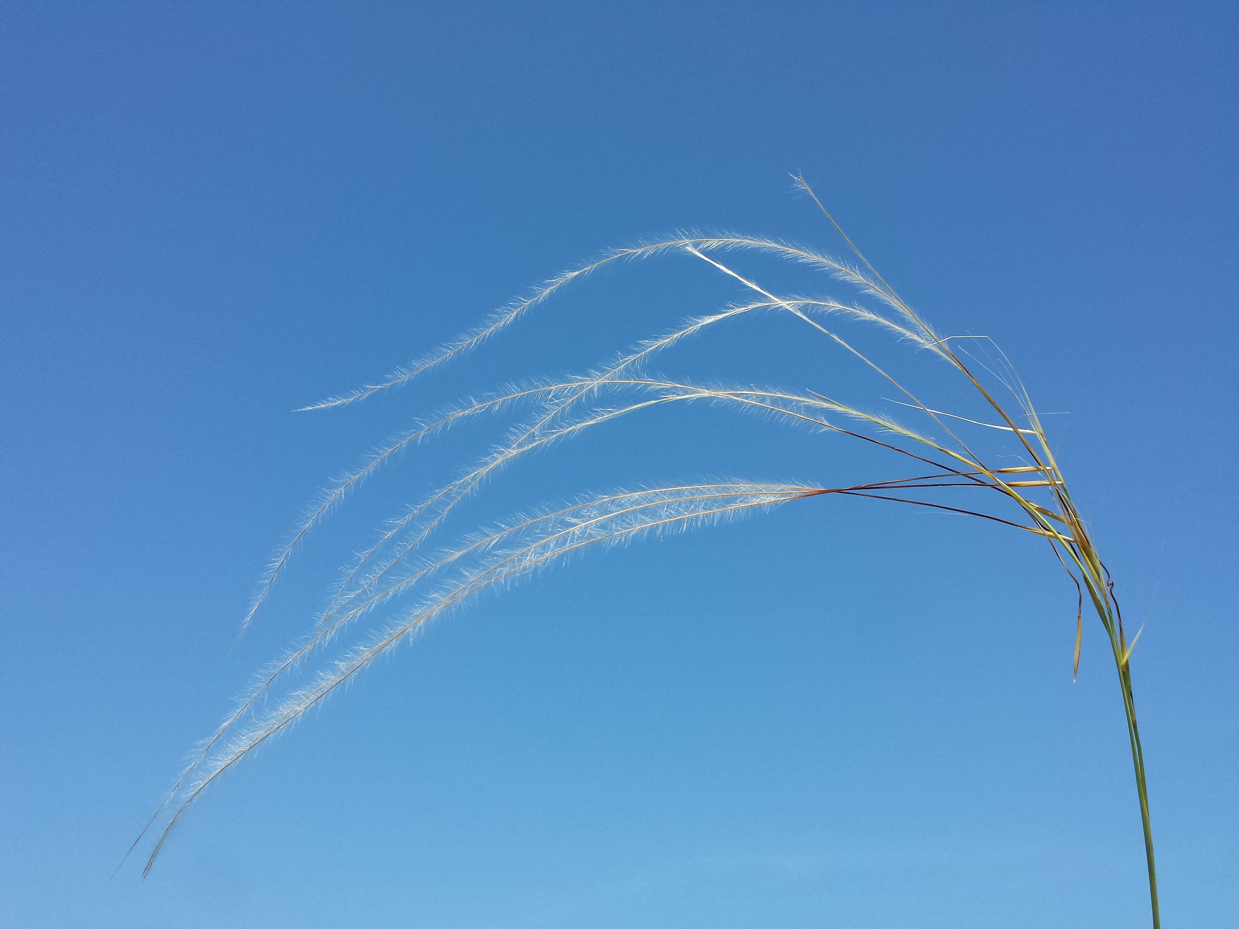 Spike Taxonym: Stipa pennata ss Fischer et al. EfÖLS 2008 ISBN 978-3-85474-187-9 Location: Geißberg near Eggendorf im Thale, district Hollabrunn, Lower Austria - ca. 290 m a.s.l. Habitat: dry meadows